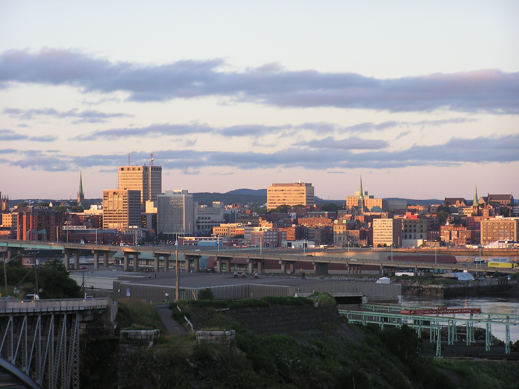 I took this photo in July 2006 and am putting it here in the Commons for all to use.